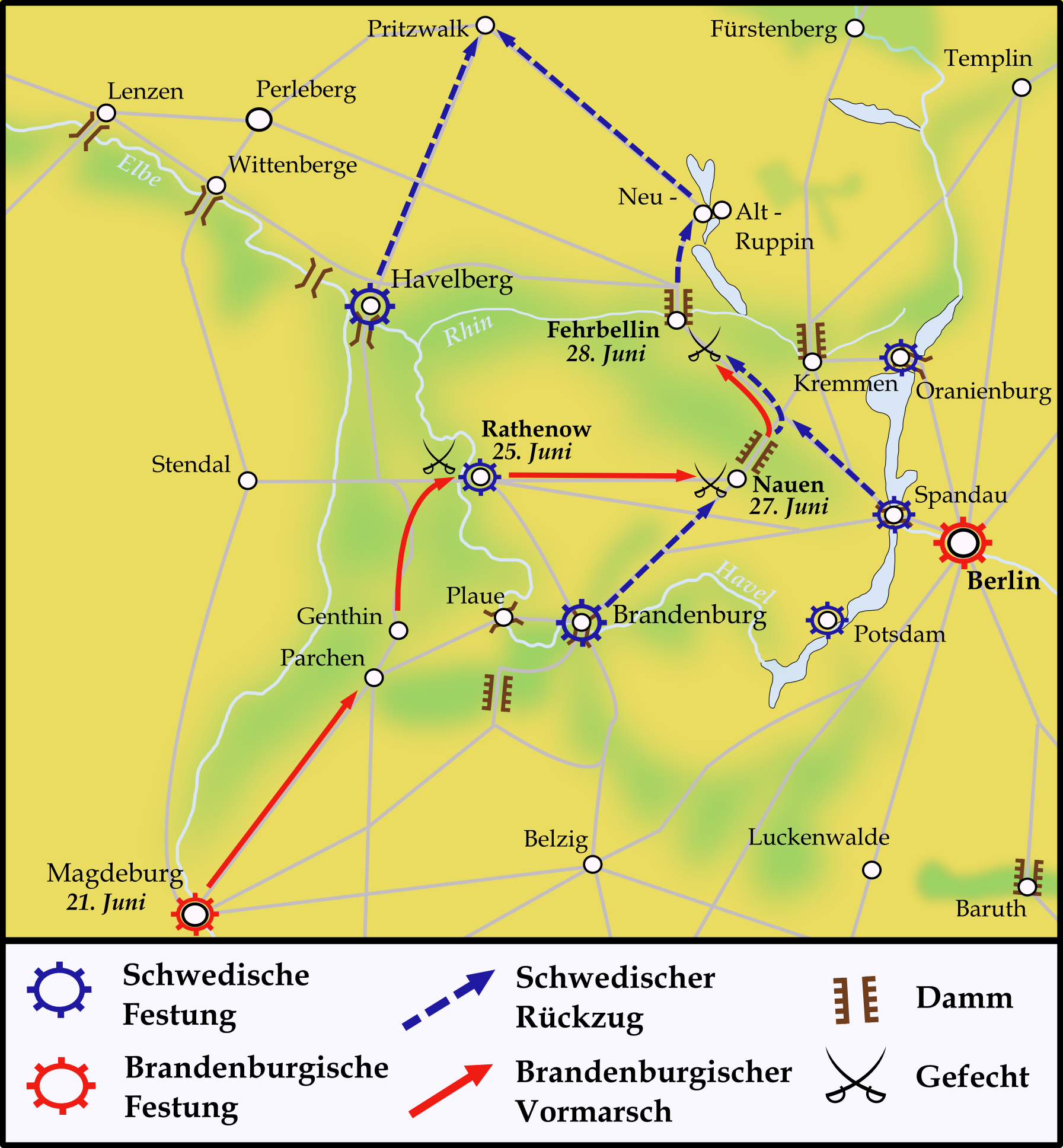 Map showing the Campaign of the Elector of Brandenburgs troops in Brandenburg against Swedish Forces in 1675